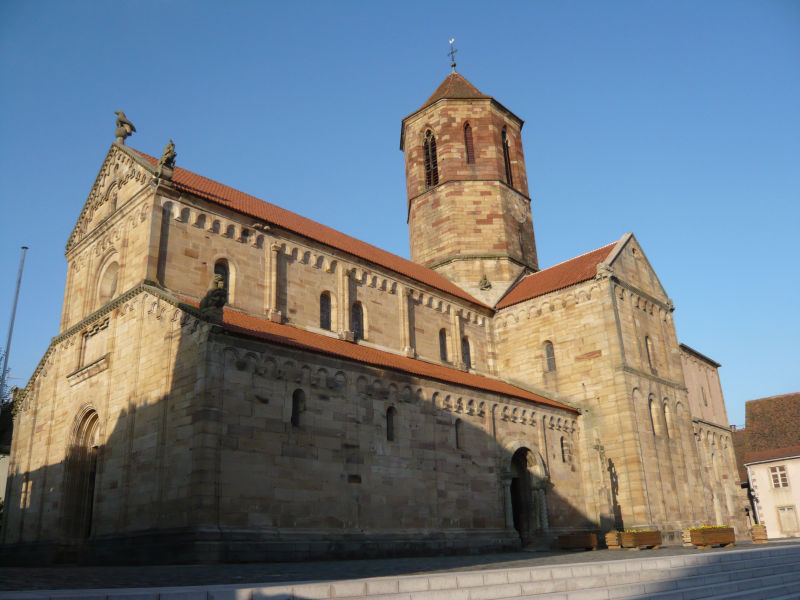 Rosheim, France: Church St. Peter and Paul